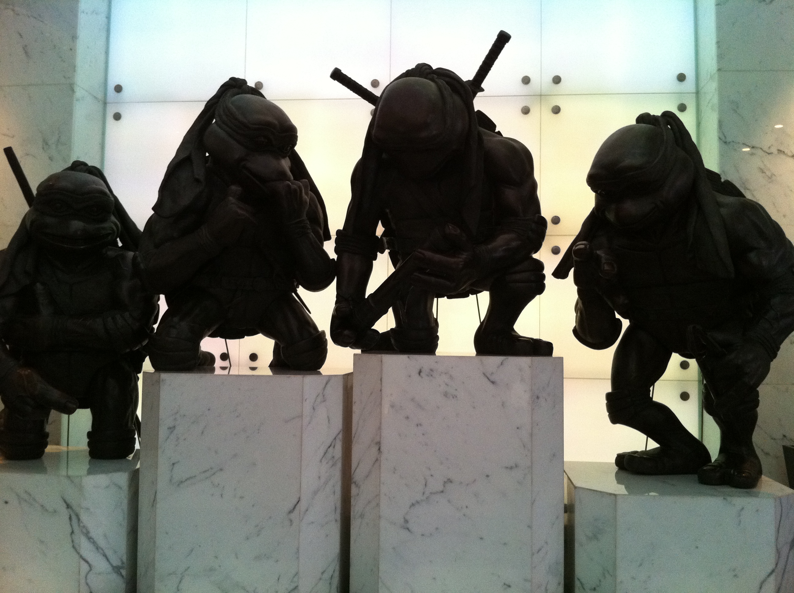 Statues standing in office lift lobby hall at The Toy House, No.100 Canton Road, Tsim Sha Tsui, Hong Kong